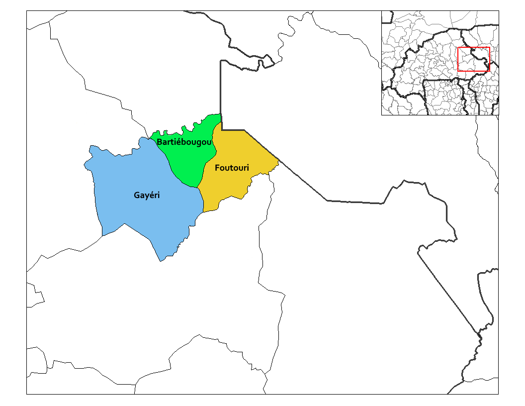 This map has been uploaded by Osiris fancy from to enable the Wikimedia Atlas of the World. Original uploader to was Rarelibra. Osiris fancy is not the creator of this map. Licensing information is below. Map of the Komondjari department in Burkina Faso. Created by Rarelibra 03:23, 30 September 2006 (UTC) for public domain use, using MapInfo Professional v8.5 and various mapping resources.